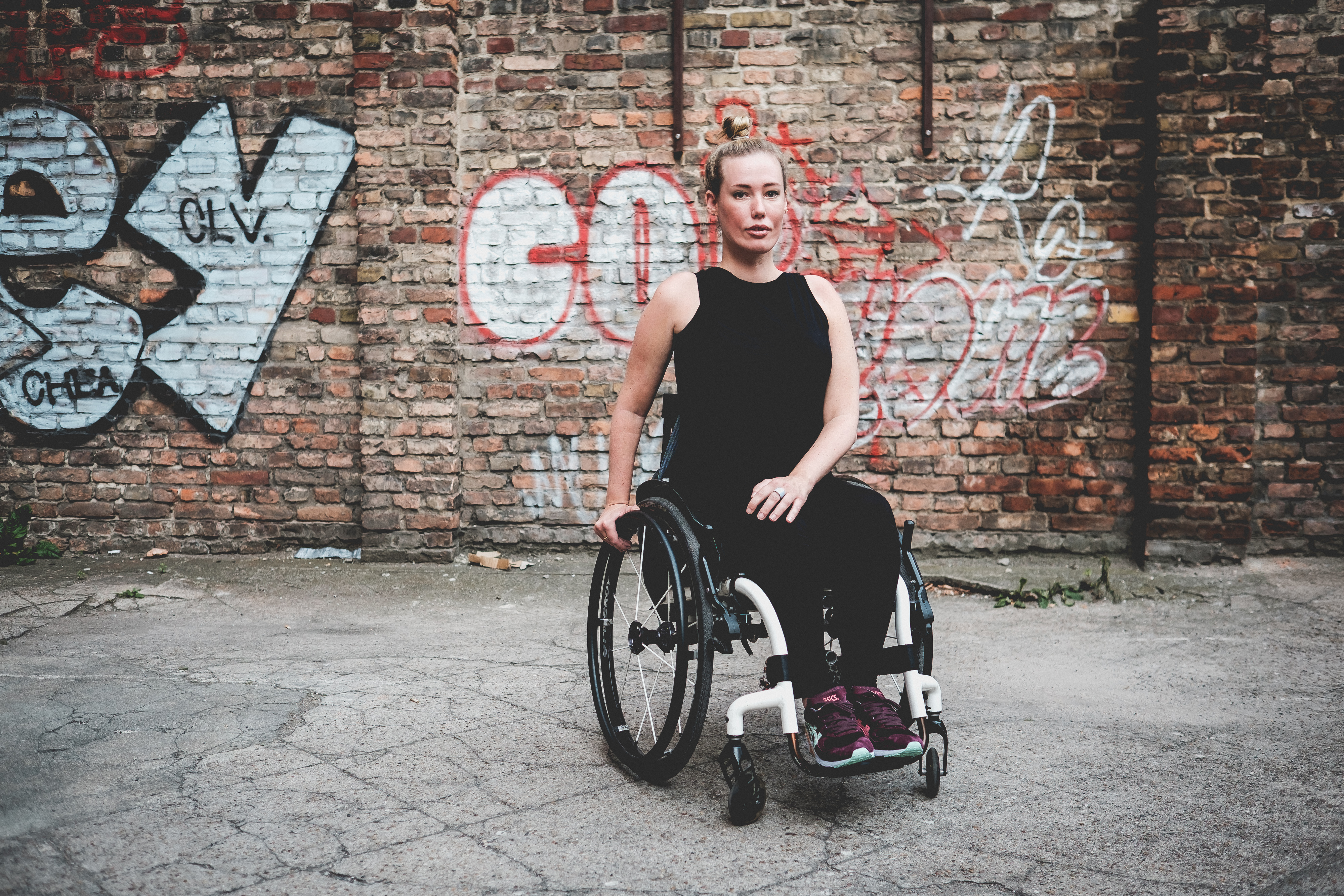 Laura Gehlhaar